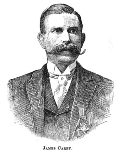 Reproduction of a drawing of Medal of Honor recipient Seaman James Carey, published in the book, The Story of American Heroism, page 751, by J. William Jones, published by the Werner Company in 1897.